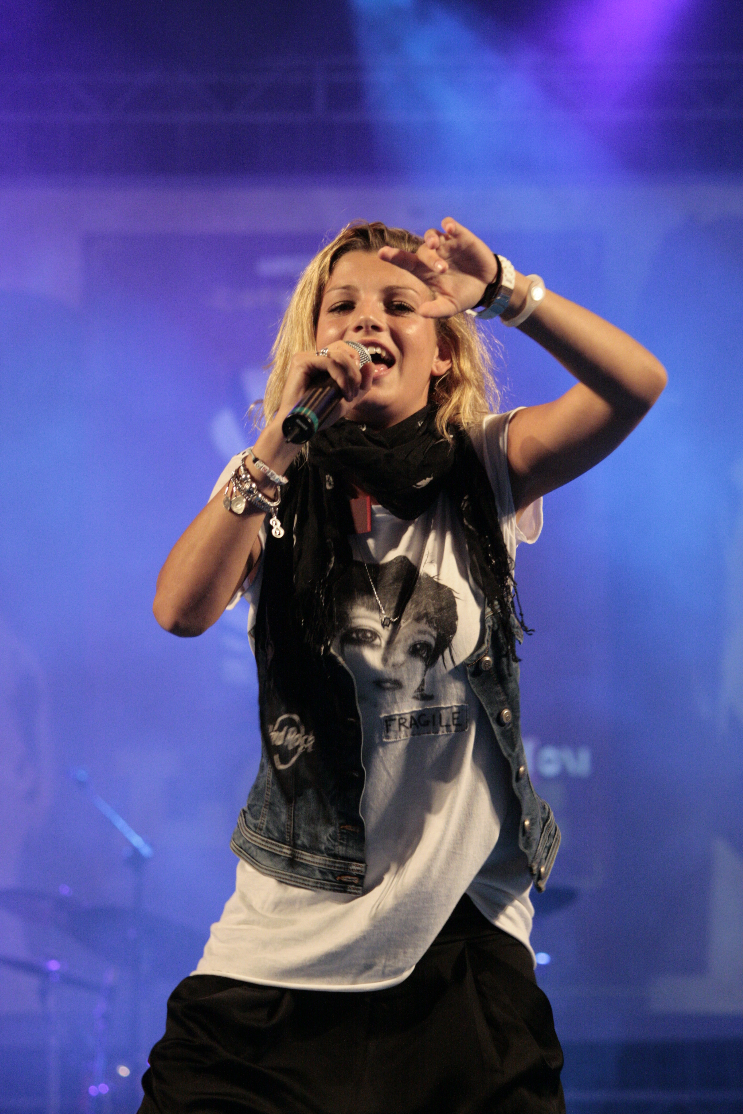 Italian singer Emma Marrone performs at Giffoni Film Festival